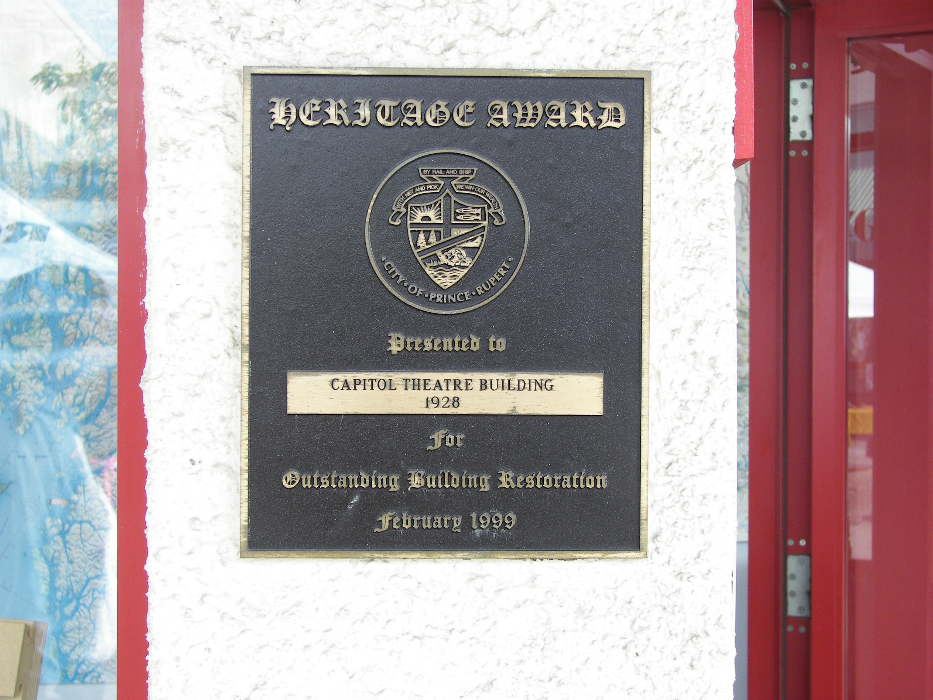 Heritage Award plaque for the Capitol Theatre Building (Capitol Mall) on 3rd Avenue W in Prince Rupert, British Columbia.